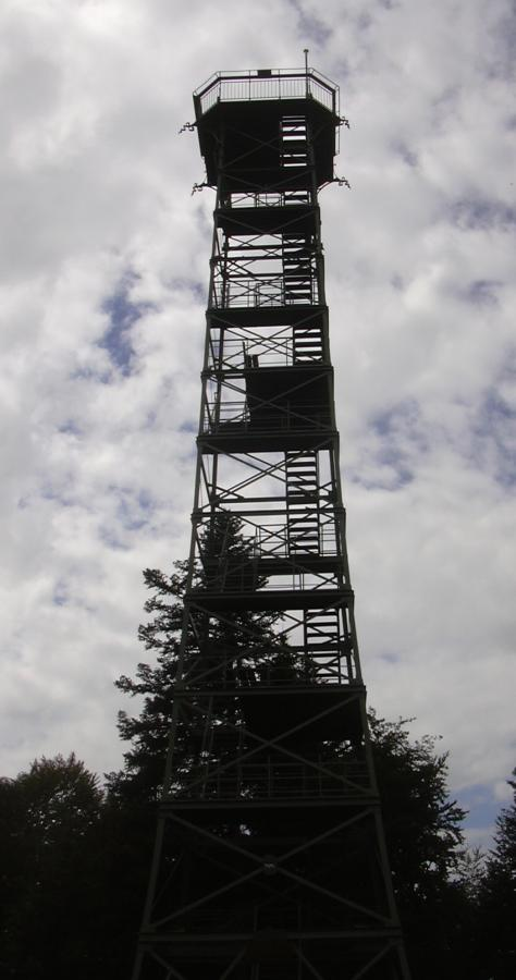 Lembergturm, a view tower near Gosheim, Germany